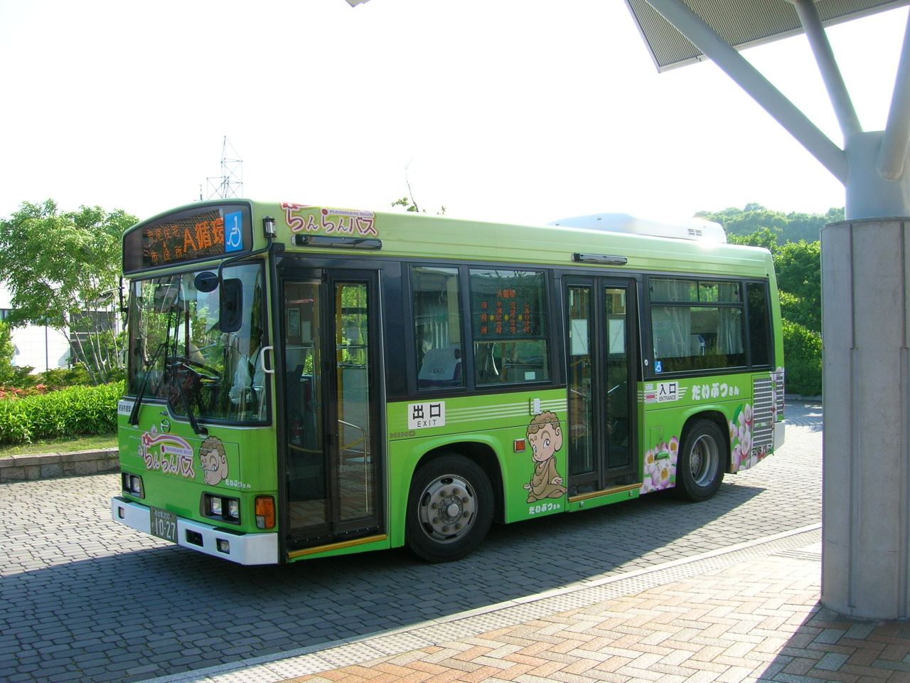 RANRAN Bus (Daibutsu-san), Community Bus of Tokai city. Loc: Syurakuen Park, Tokai city, Aichi prefecture, Japan.